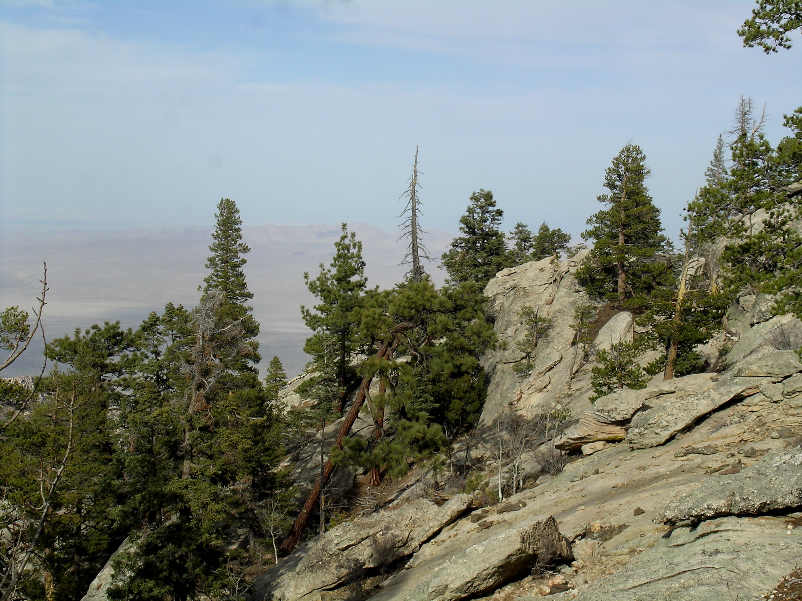 Granite rock formations in Sierra San Pedro Martir, Sierra de San Pedro Mártir National Park, Baja California, Mexico. Trees are mixed Pinus jeffreyi, Pinus contorta subsp. murrayana and Abies concolor subsp. lowiana.